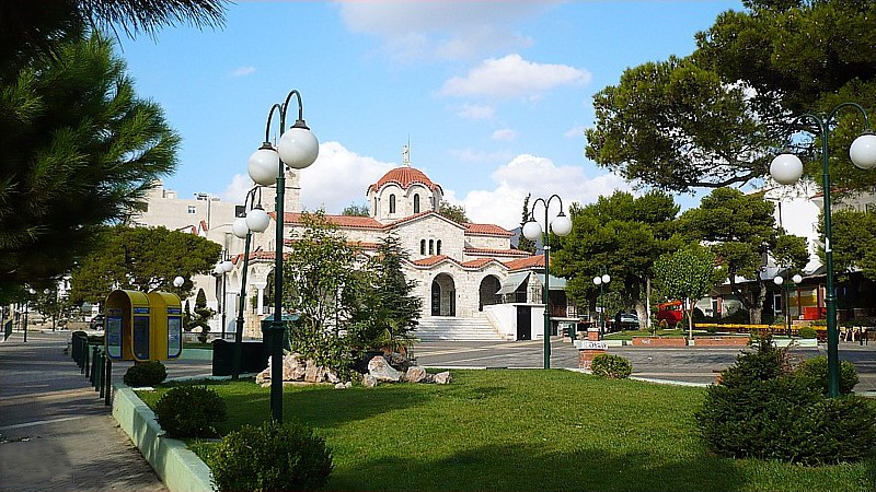 Melissia Main Square - Athens - Greece.